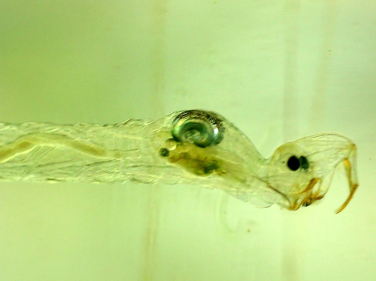 Chaoborus spec. larva swallowing a Daphnia